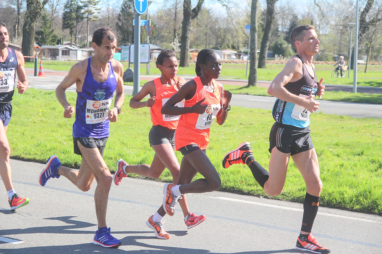 Black women white men marathon Rotterdam 2016